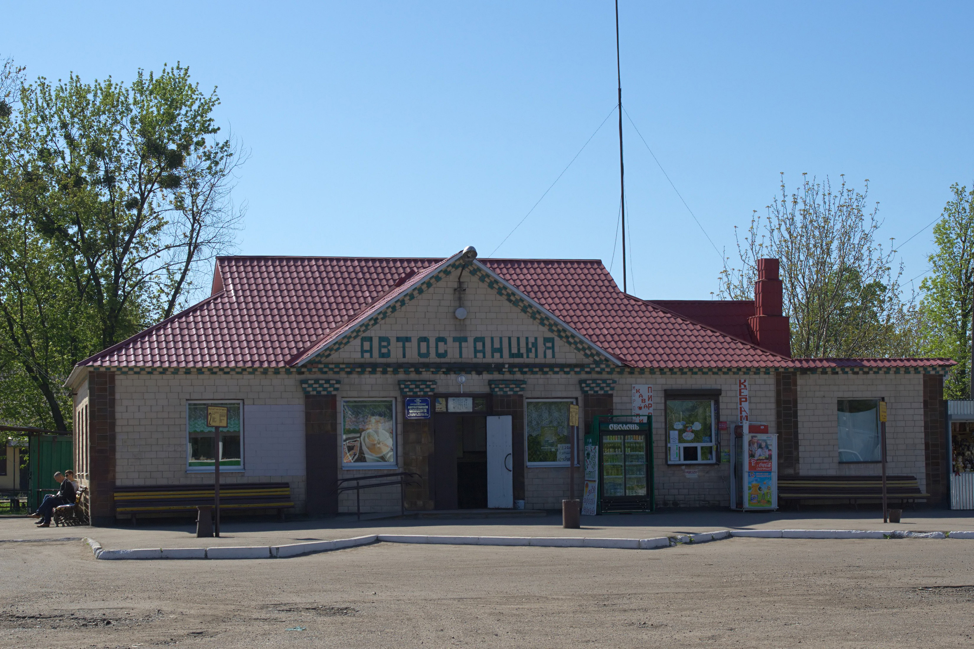 Bus station in Опішня